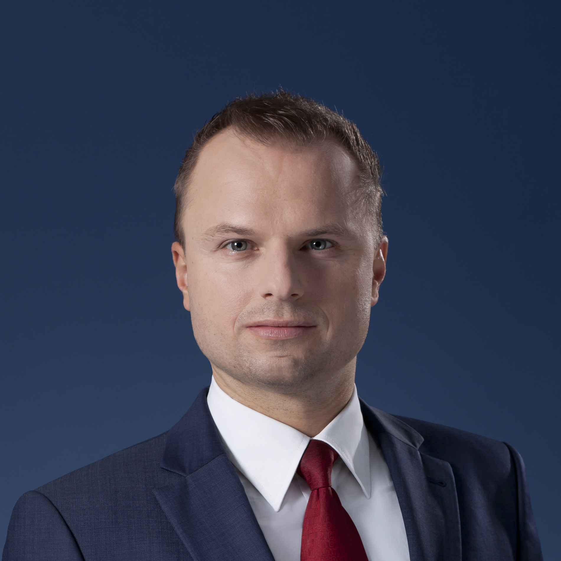 Maciej Dobieszewski